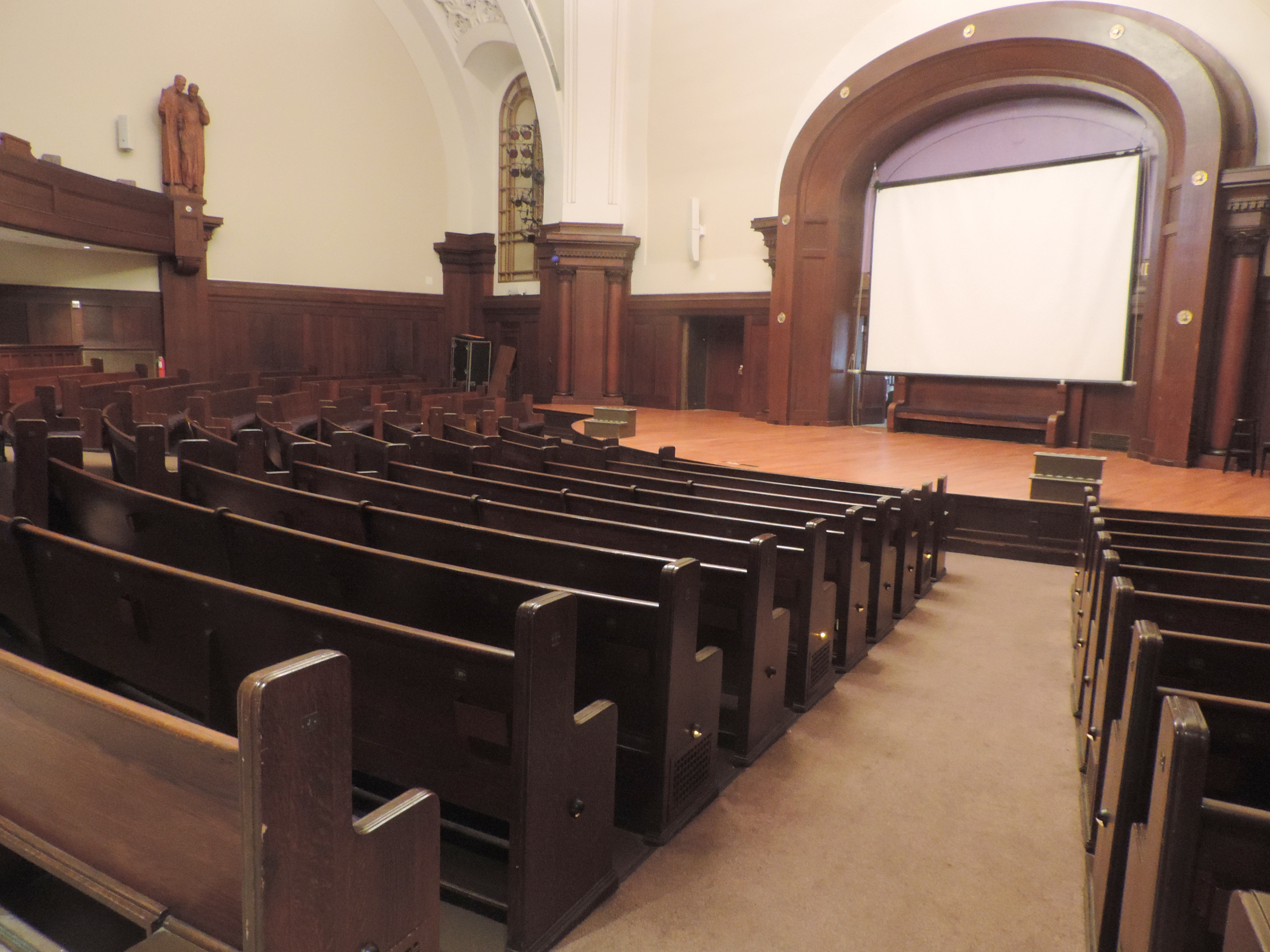 Looking south from western stair at Concert Hall of NYSEC